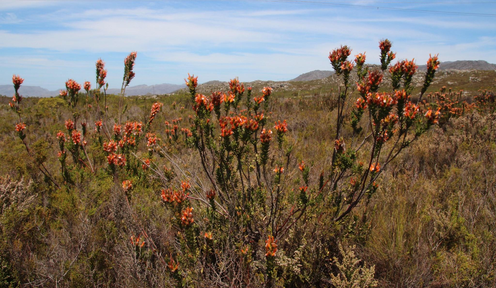 A conical pagoda, Mimetes capitulatus, photographed by Tony Rebelo, on 23 October 2015, on Rockview track at switch station, Sir Lowrys Mountain Pass, Hottentots Holland, Overberg County, Western Cape province South Africa